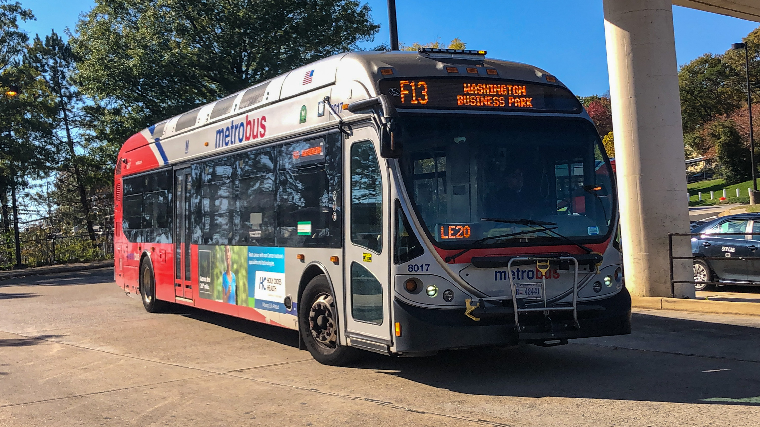 WMATA 2014 NABI 42 BRT 8017 on Route F13 At New Carrollton station